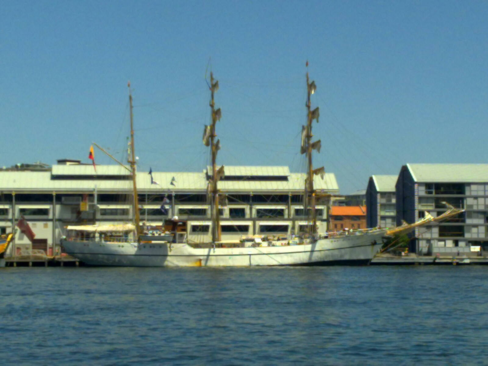 School ship BAE "Guayas" docked in Darling Island, January 2016.